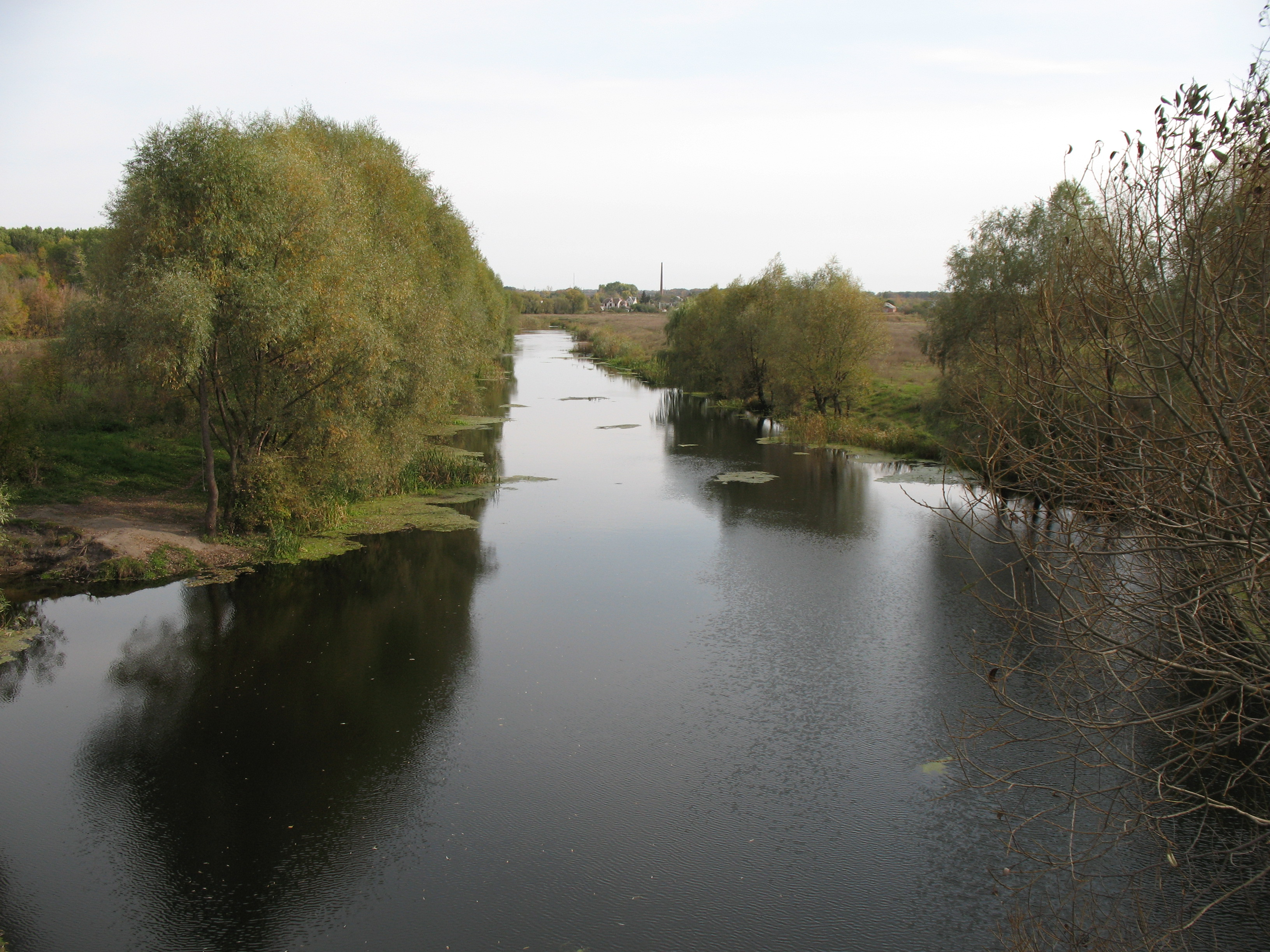 The city of Vovchansk/Volchansk on the Vovcha/Volcha (Wolf) river